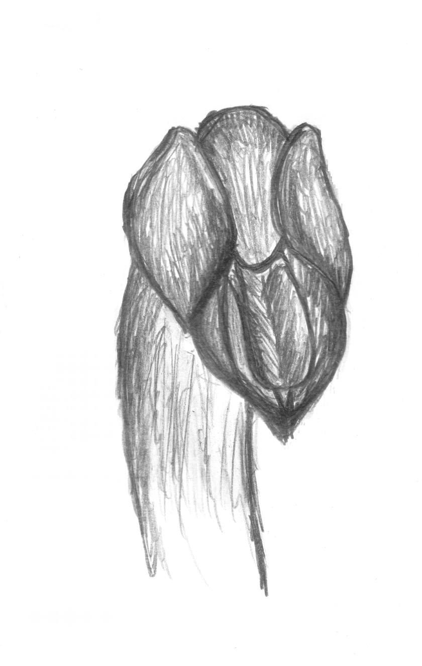 Rhizanthella gardneri, single flower